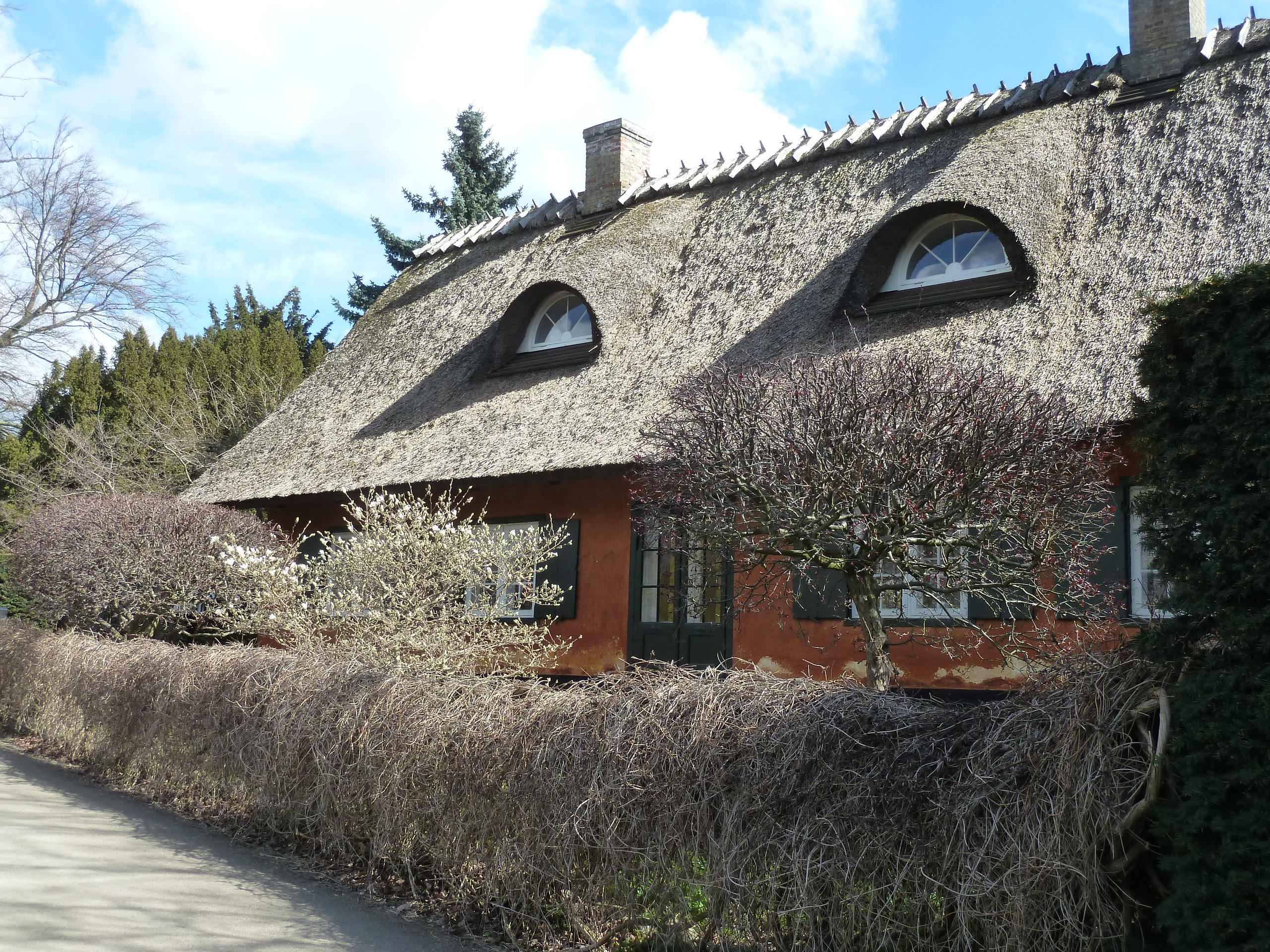 Sweitzerhytten in Frederiksberg Have in Copenhagen, Denmark